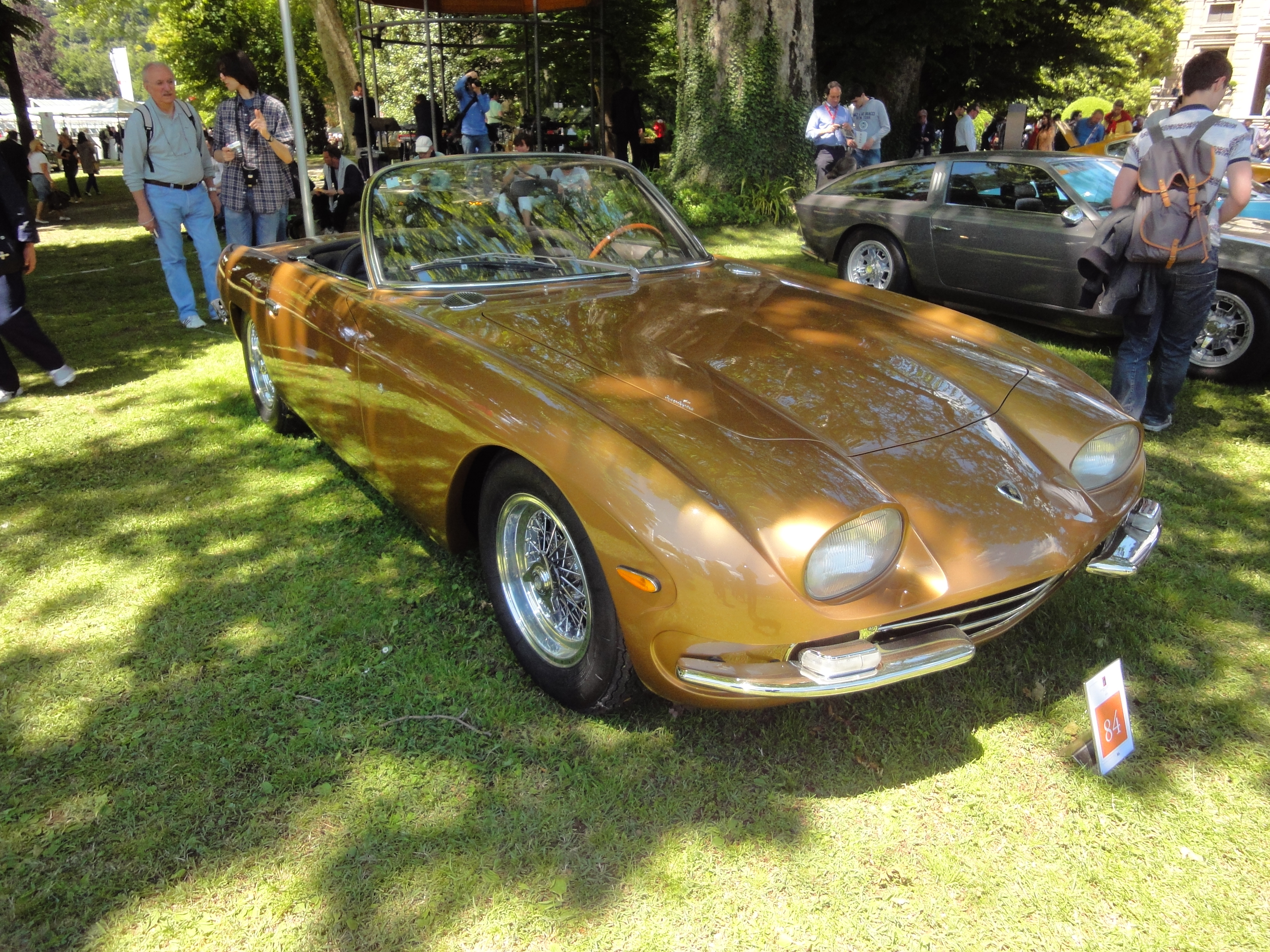 One of the first Lamborghini 350 GTS (GT Spyder), this s/n 0325 was first shown at the 1965 Turin Auto Show. [1].[2] In this picture, it is shown at the Concorso d'eleganza Villa d'Este in Italy on 26 May 2013.